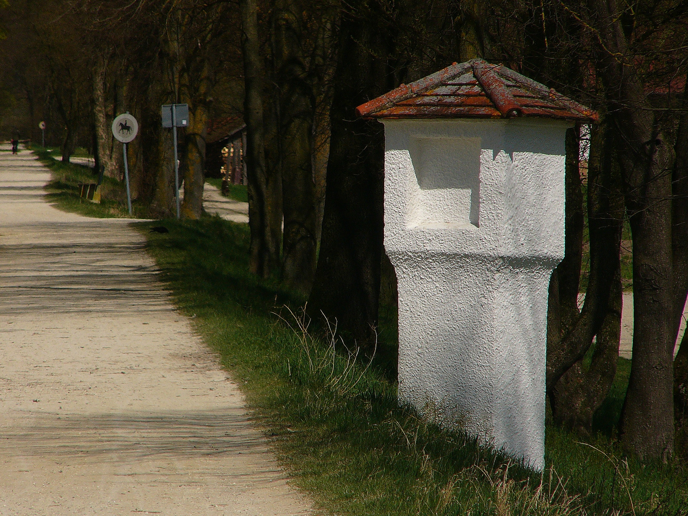 This is a photograph of an architectural monument.